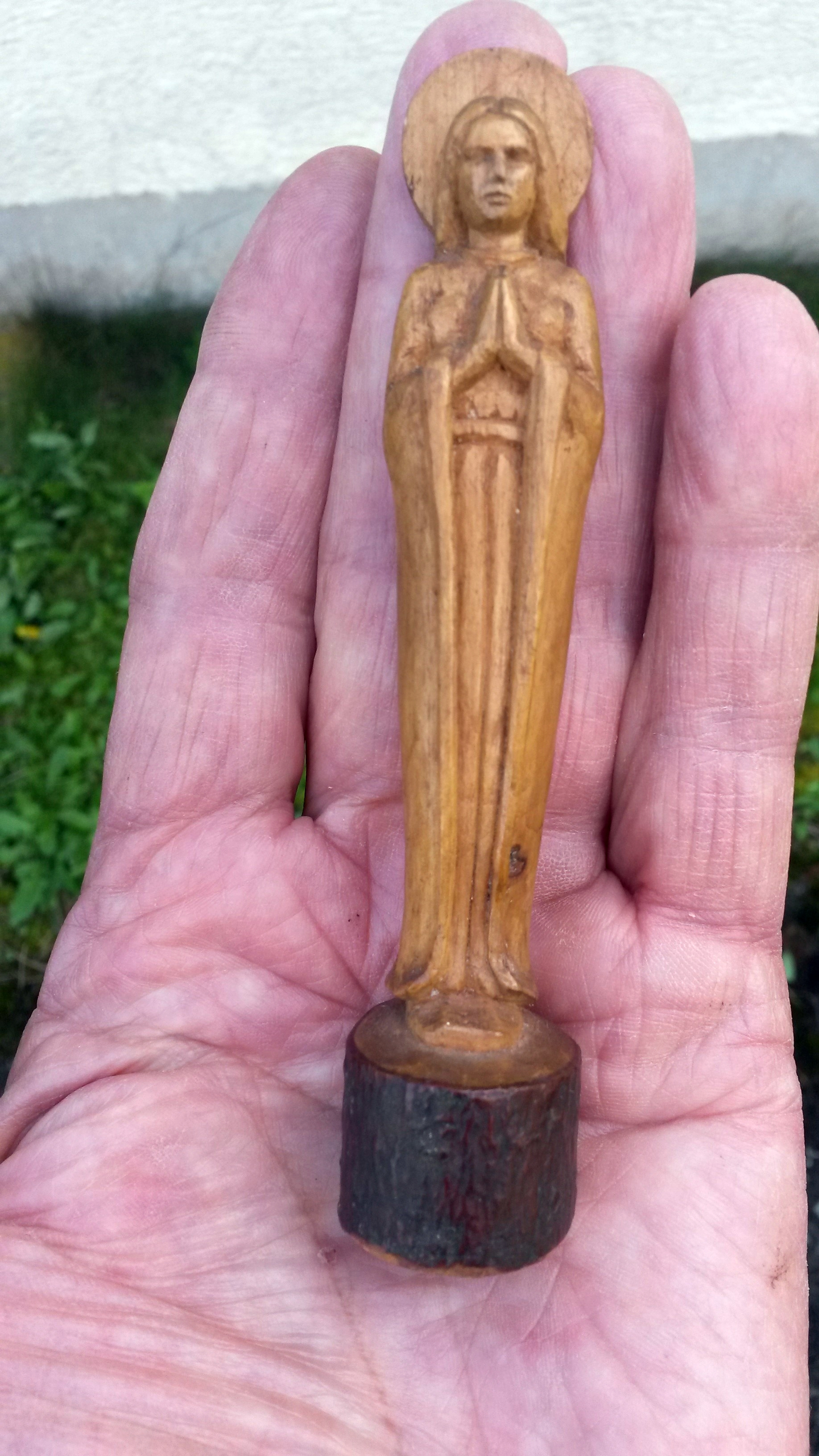 Hellmuth Marx carved this little Madonna while on the front . He only had his pocketknife to work with. During a short trip home from the front in 1942, he gave the figure to an aunt. You can see the size and delicacy of the figure if you hold the figure in the palm of your hand.